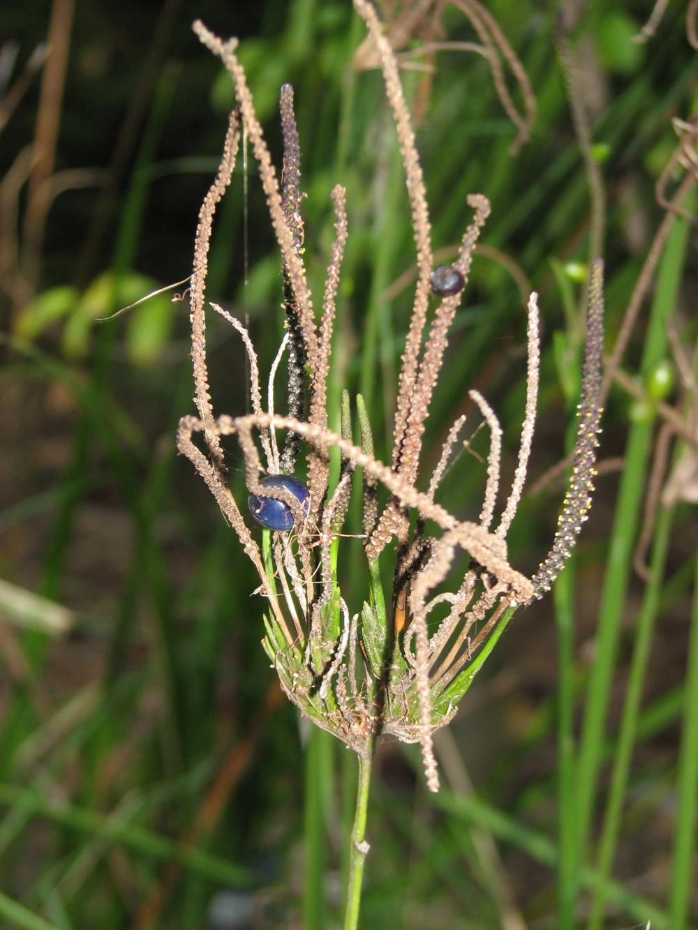 Gymnostachys anceps (cultivated, labelled) Royal Botanic Gardens, Melbourne